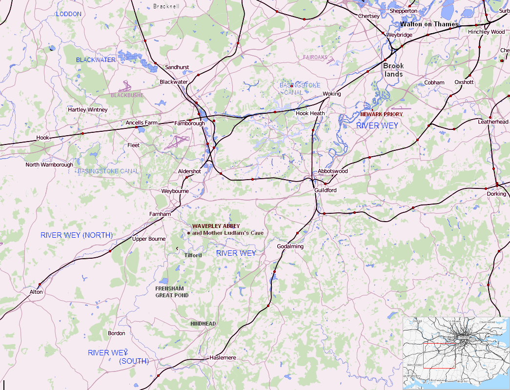 Map of the River Wey, Surrey, England